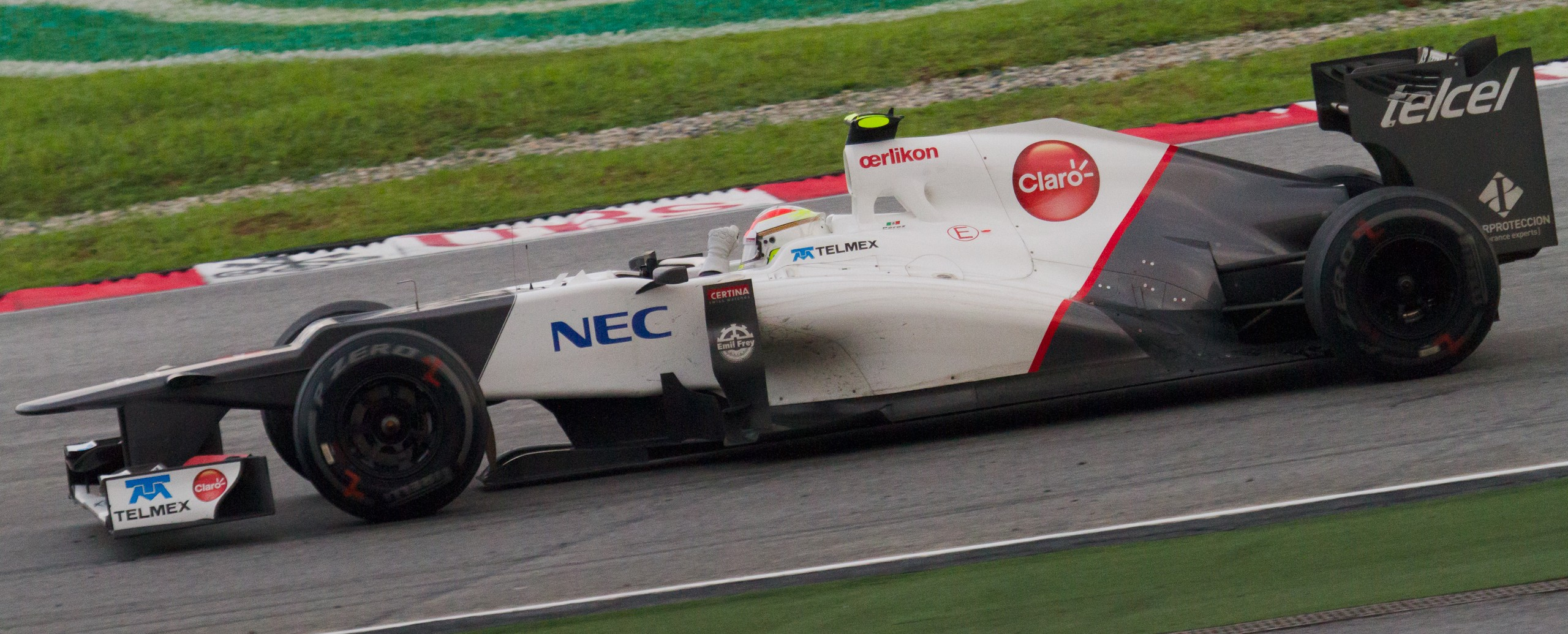 Formula One 2012 Rd.2 Malaysian GP: Sergio Pérez (Sauber) during the victory lap.